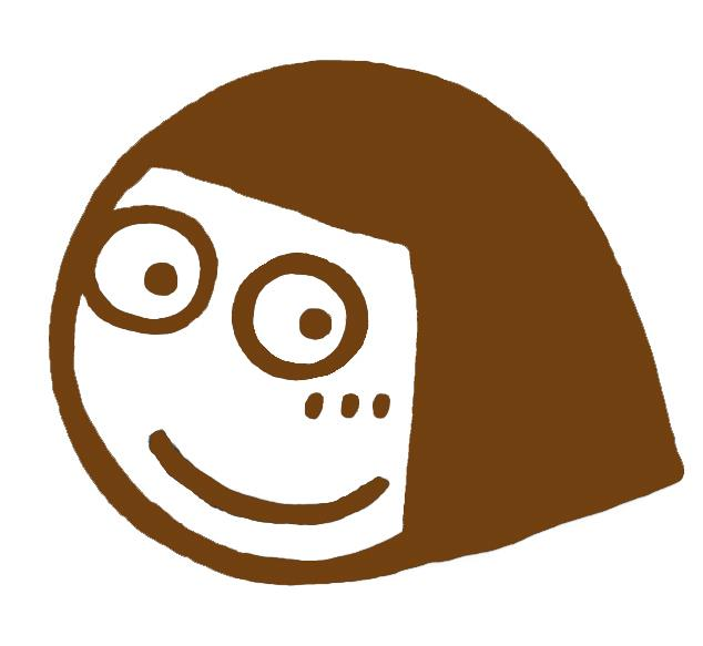 文地貓Mandycat